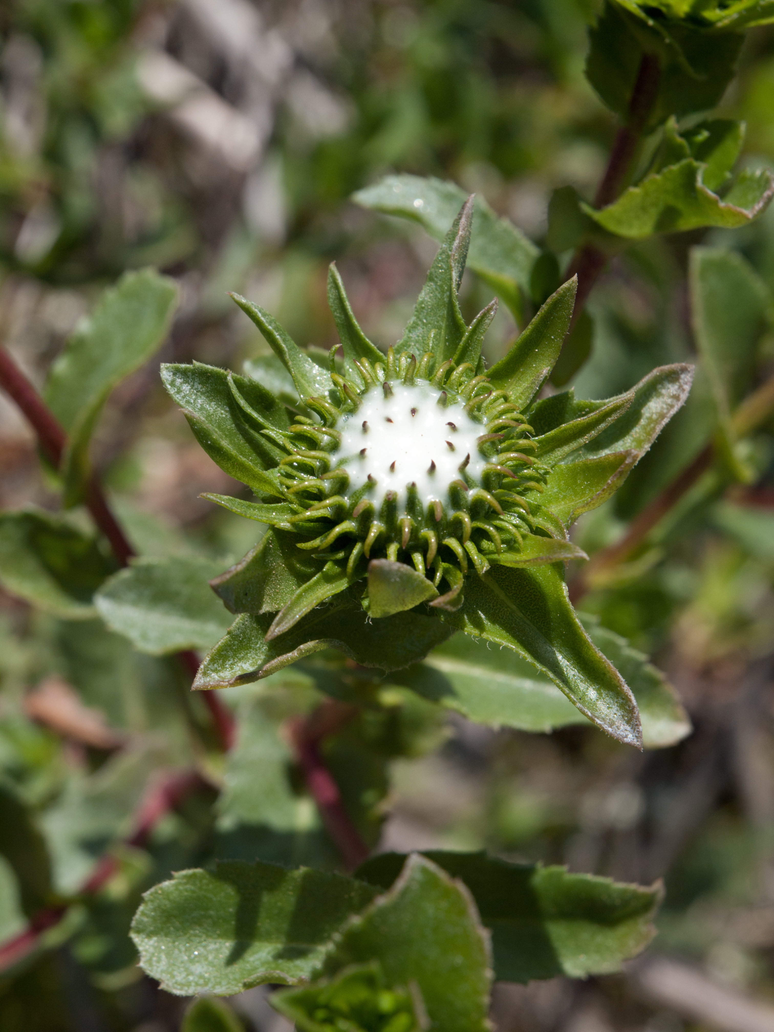 Hairy Gumweed (Grindelia hirsutula) Pomponio Beach, San Mateo county, CA